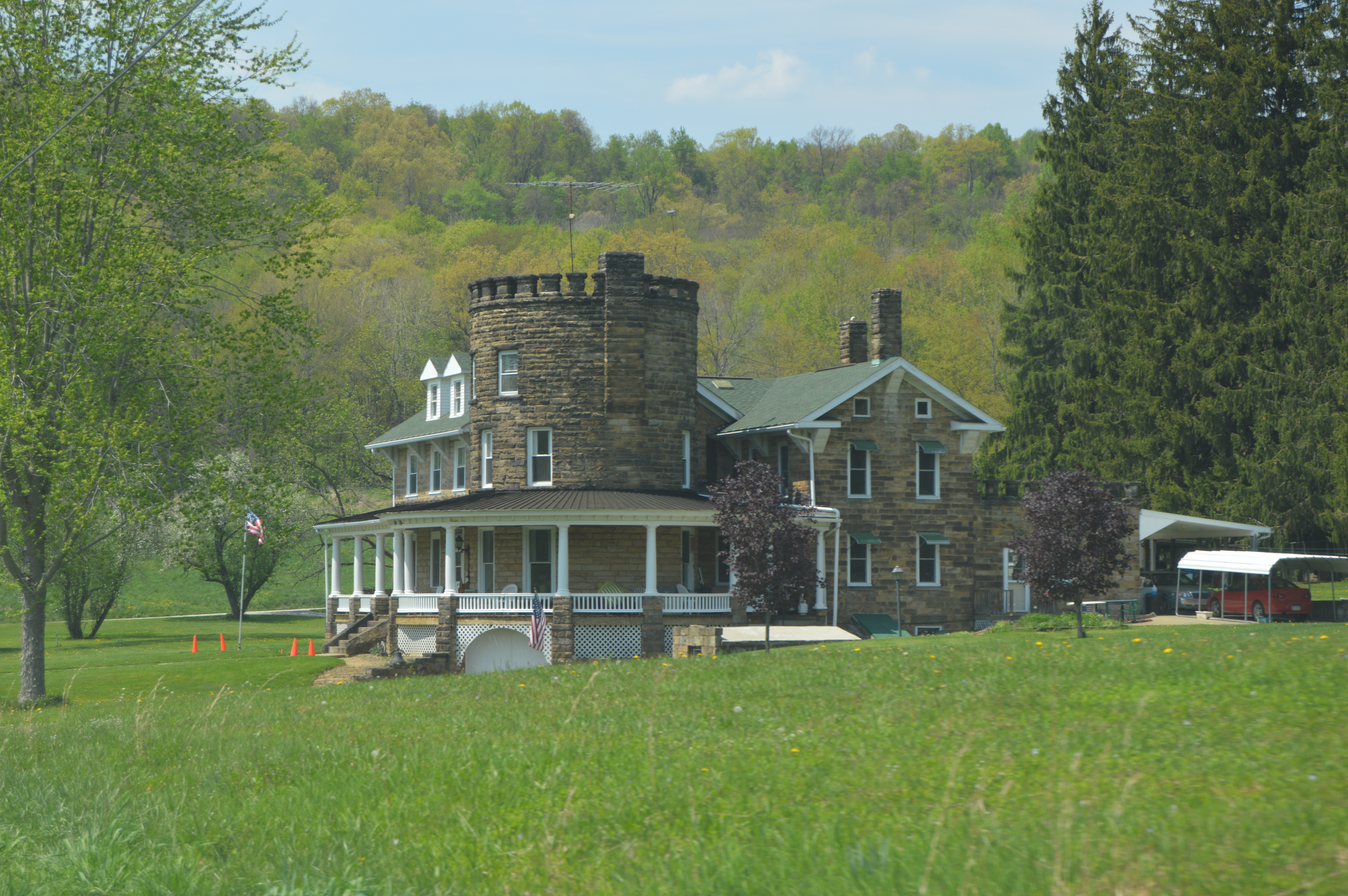 Distant view of the John B. McCormick House, located on McCormick Road southeast of Smicksburg in South Mahoning Township, Indiana County, Pennsylvania, United States. Built in 1817 and greatly expanded in 1905, it is listed on the National Register of Historic Places.